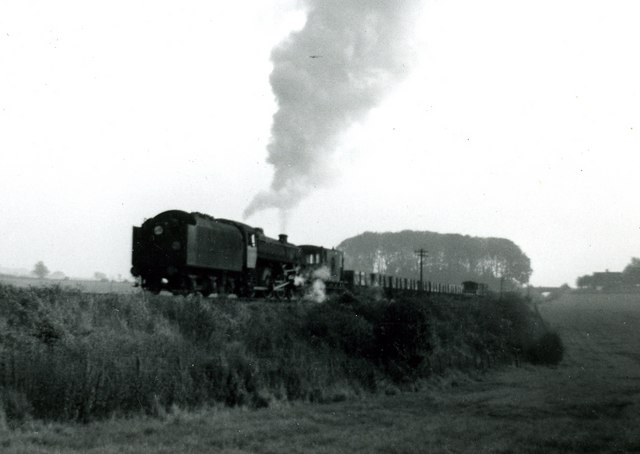 Standlynch - The Beeching Belle Although taken in black & white on a poor-resolution Brownie 127 camera, this is one of my all-time favourite photos. For me, this picture taken near dusk on a dreary autumn day in 1965 somehow portrays the unremitting gloom of this era. The demolition train somehow symbolises the death of Britain's rural railways. The Salisbury to Bournemouth railway line was closed in March 1964. Demolition started at the West Moors end in March 1965 and finished at Alderbury Junction in late 1965. The locals nicknamed this demolition train the "Beeching Belle" after Dr Richard Beeching, who consigned much of Britain's railway network to the dustbin.